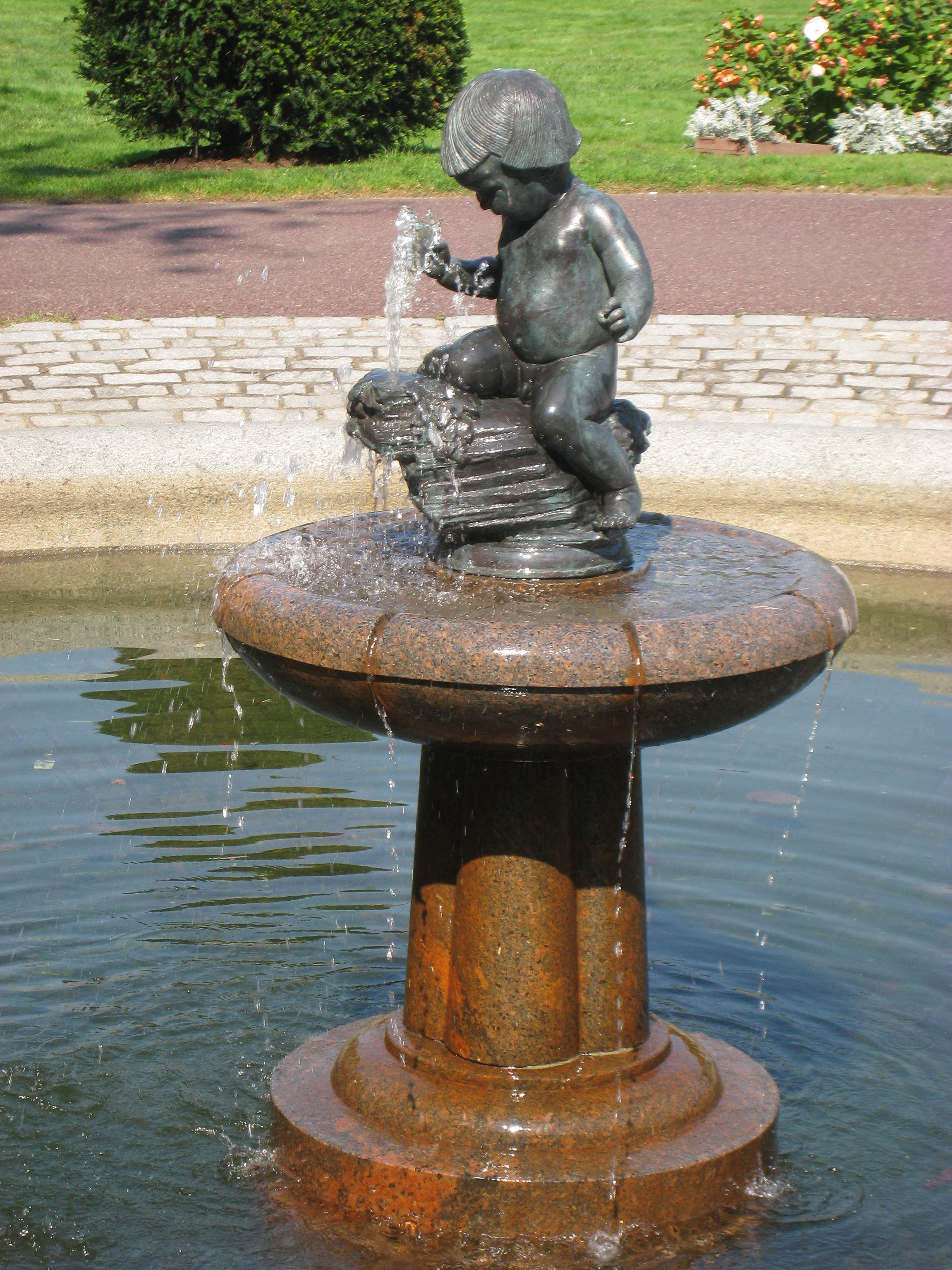 Small Child Fountain, Boston Public Garden, Boston, Massachusetts, USA. Mary E. Moore, 1887-1967, sculptor. Smithsonian Institute control number 87740049. (